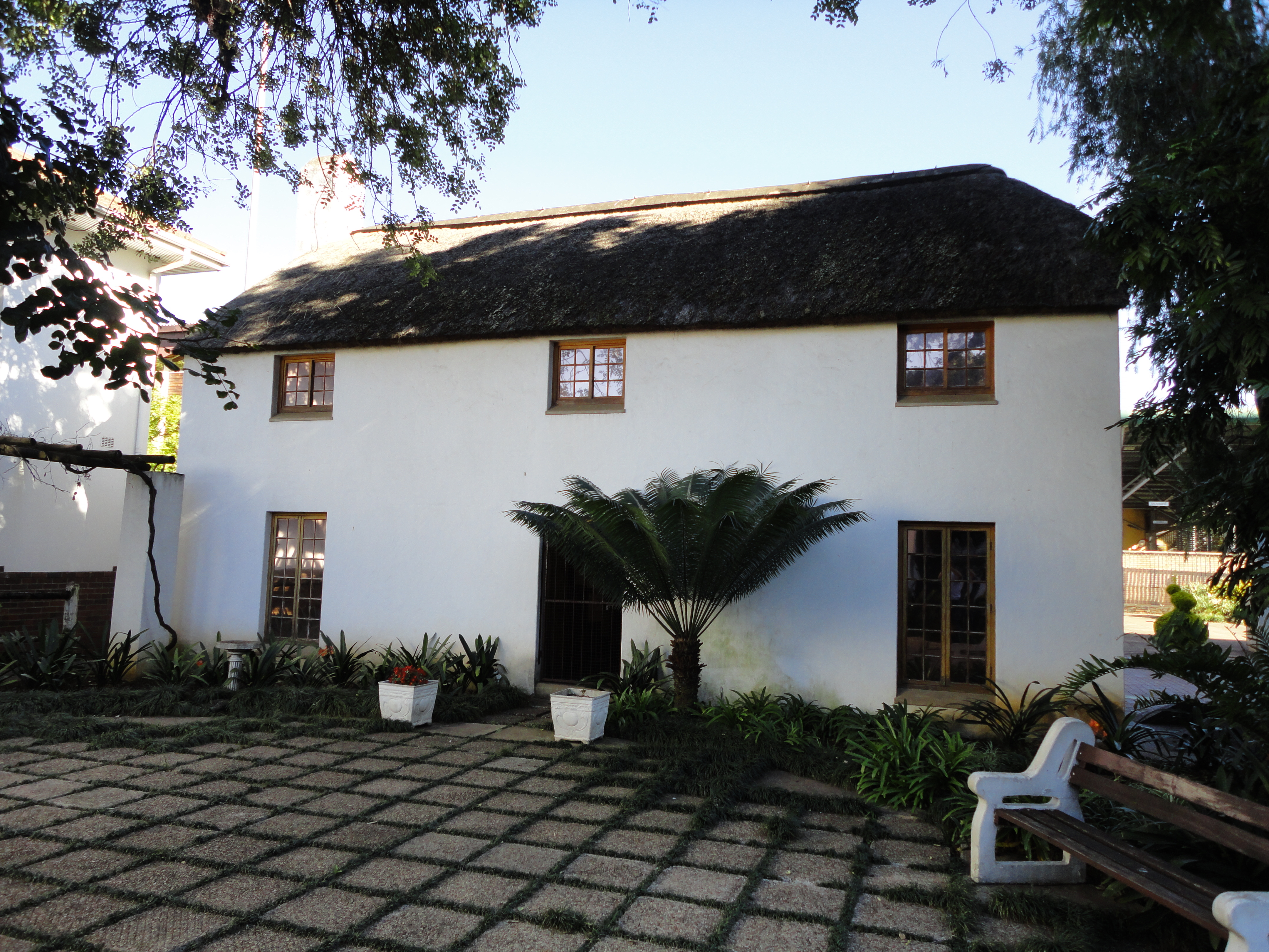 Andries Pretorius House in the Voortrekker Complex, Pietermaritzburg. The relocated and reconstructed thatched-roof double storey house of Andries Pretorius dates from c. 1843 and was officially reopened by the honorable Pierre Cronje, deputy minister of community development, on 16 December 1981.